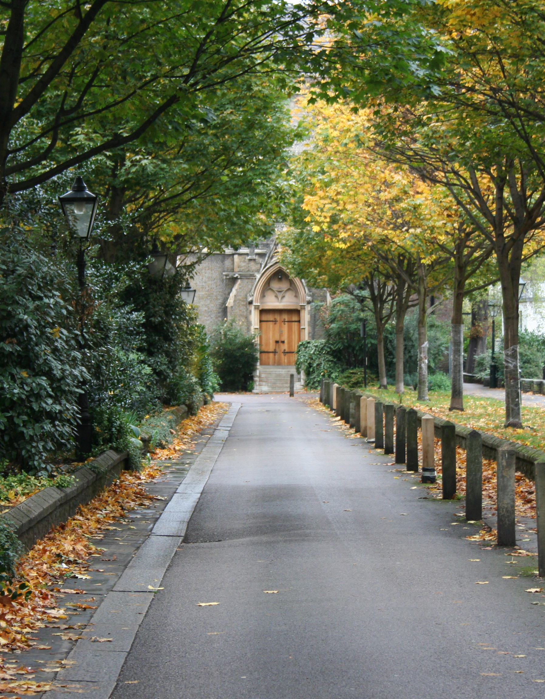 Entrance drive, Holy Trinity Anglican Church, Brompton, London, England